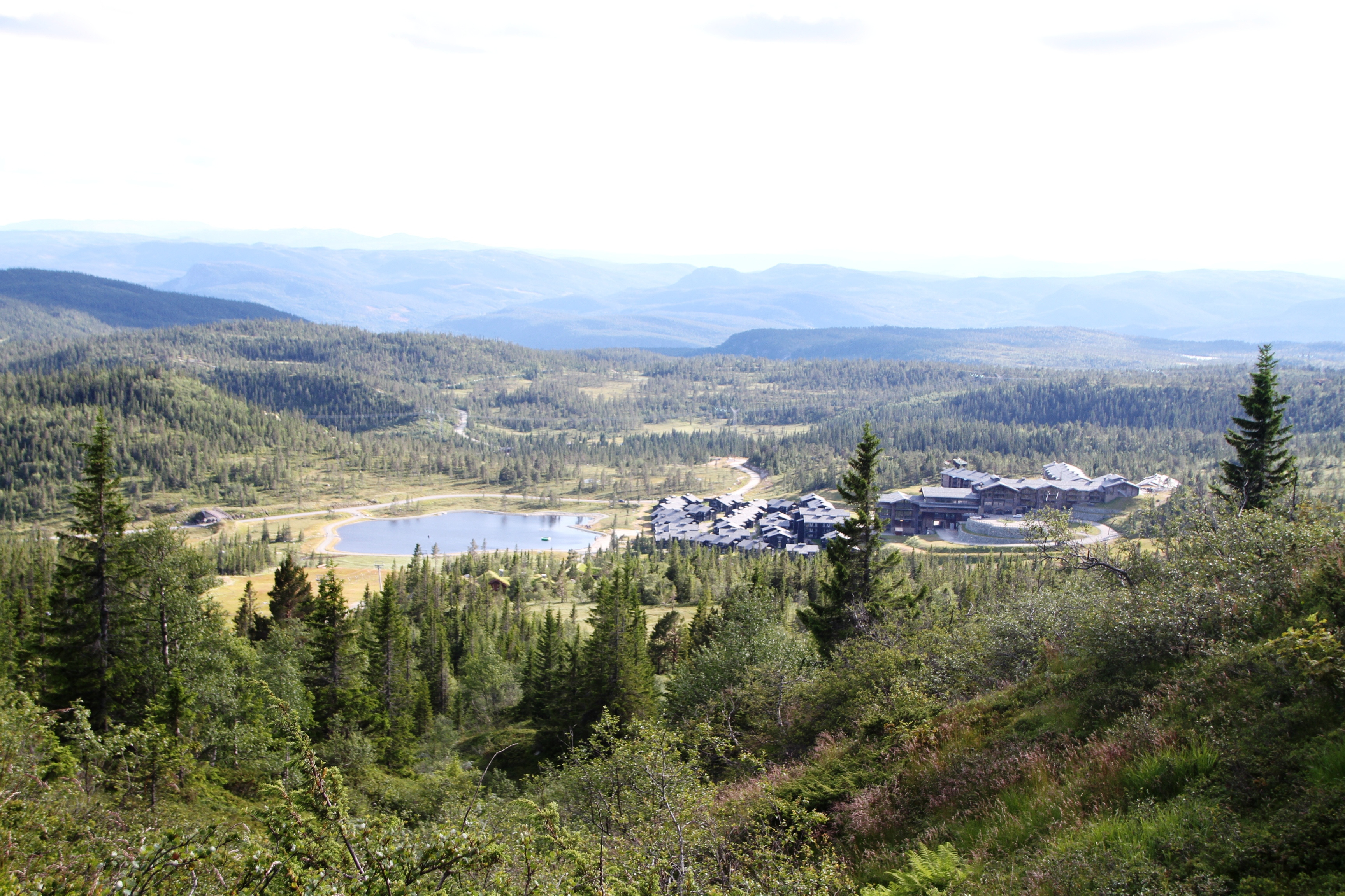 Photo seen from the Norefjell plateau, towards the resort northwest of Krødsherad. Municipality of Krødsherad, Buskerud county, Norway.